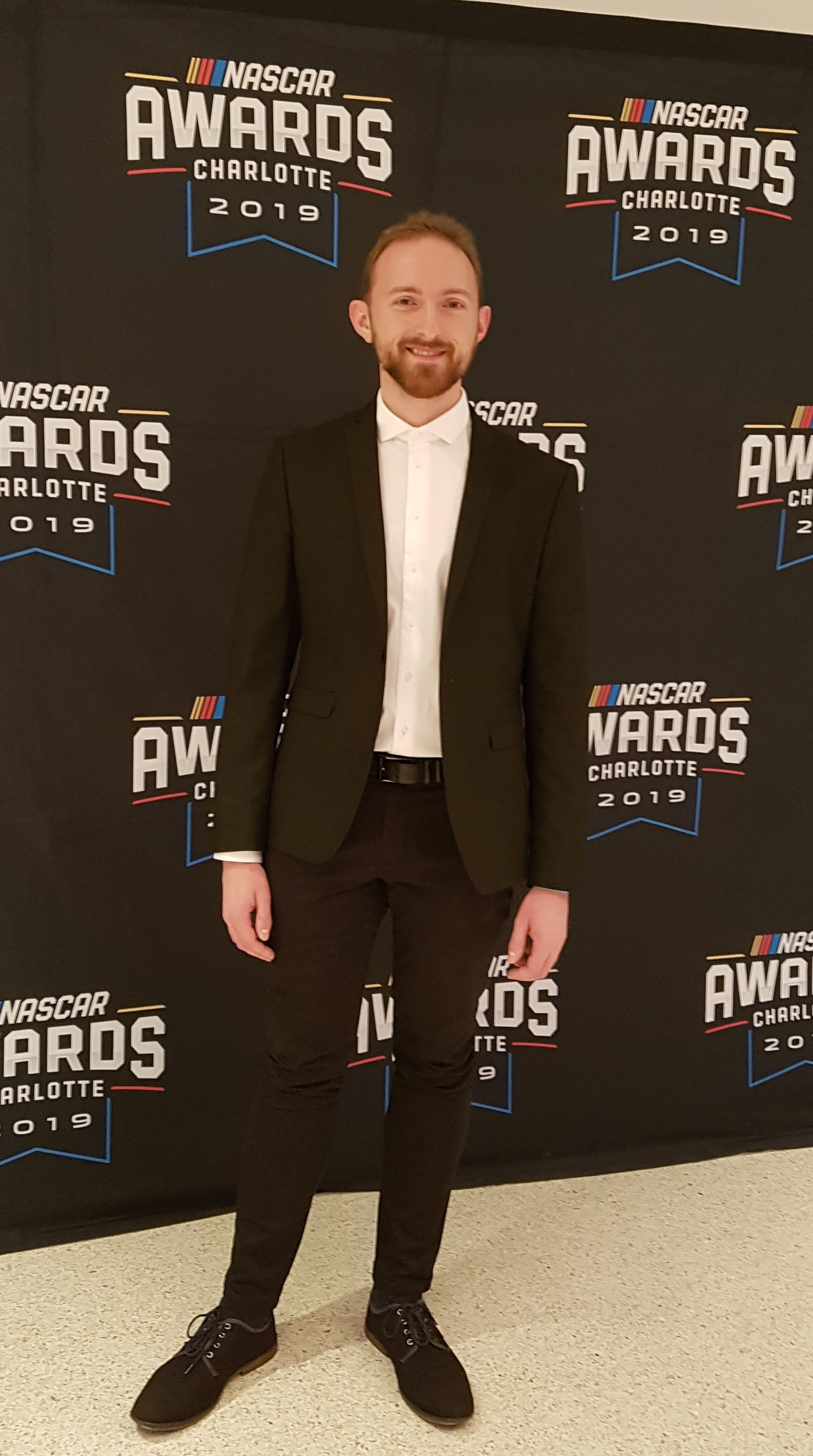 Alain Mosqueron during the NASCAR Awards 2019 in Charlotte